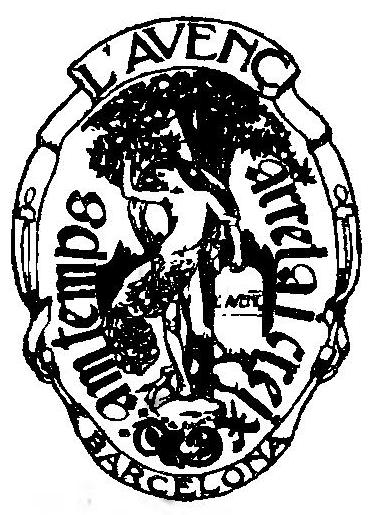 Logo of Tipografia de L'Avenç.